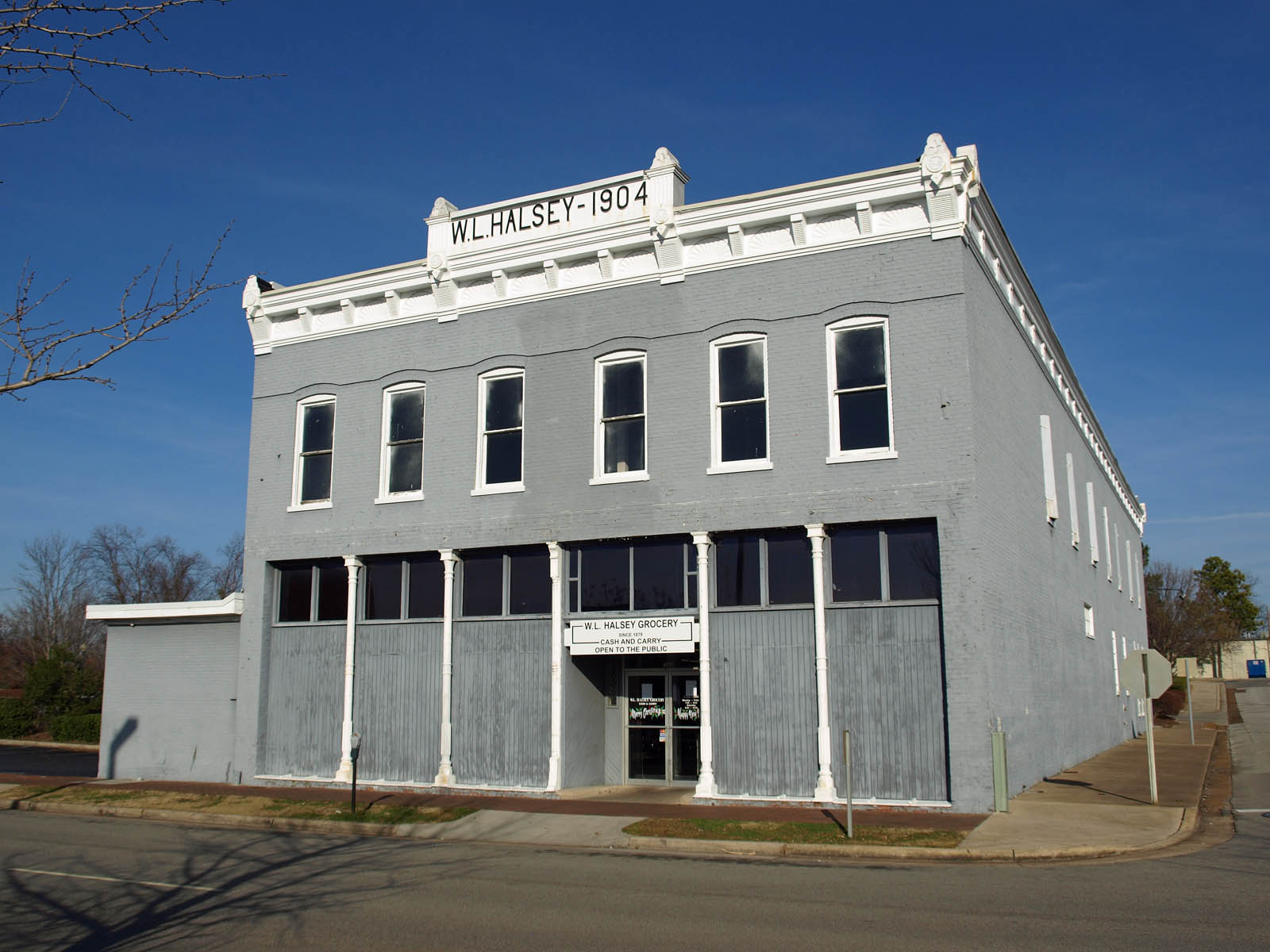 W.L. Halsey Grocery in Huntsville, Alabama, listed on the National Register of Historic Places.